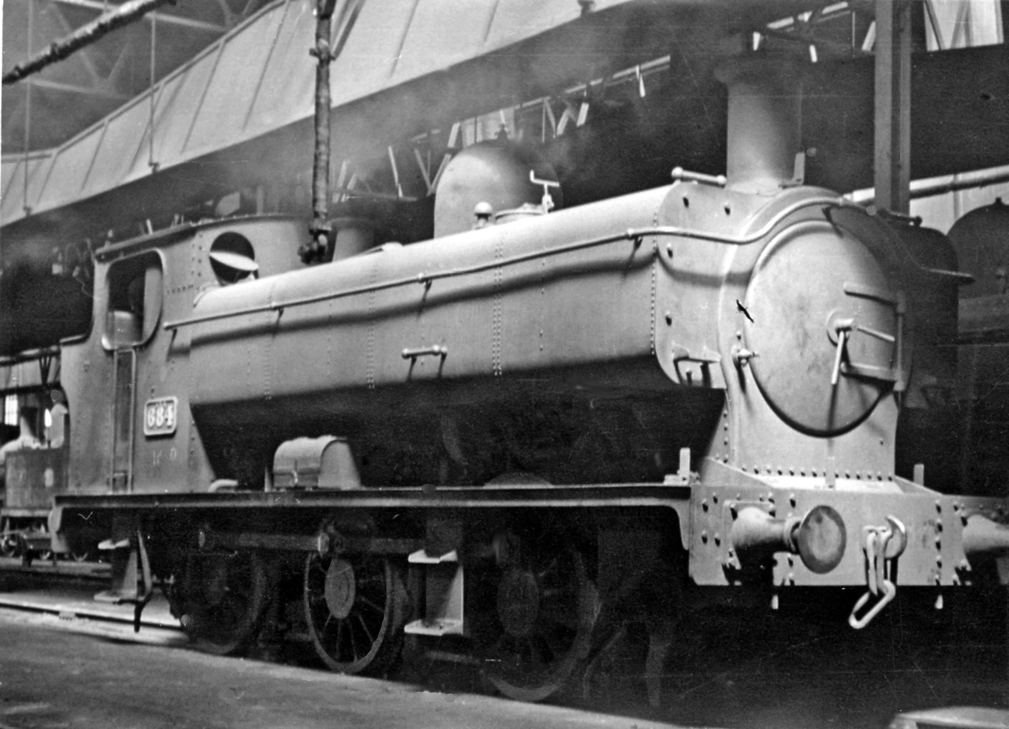 Ex-Cardiff Railway 0-6-0T inside Cardiff East Dock Shed. Specially positioned for me to photograph in the sunshine pouring through the roof, ex-Cardiff Railway 0-6-0 pannier-tank No. 684, a survivor of 36 engines acquired by the GWR in 1922 (built in 1920, withdrawn in 12/54).